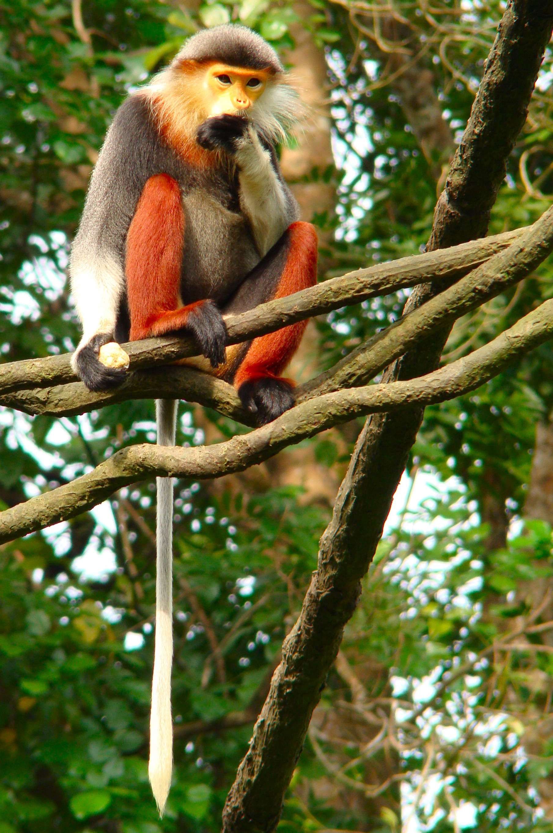 A red-shanked douc in Singapore Zoo